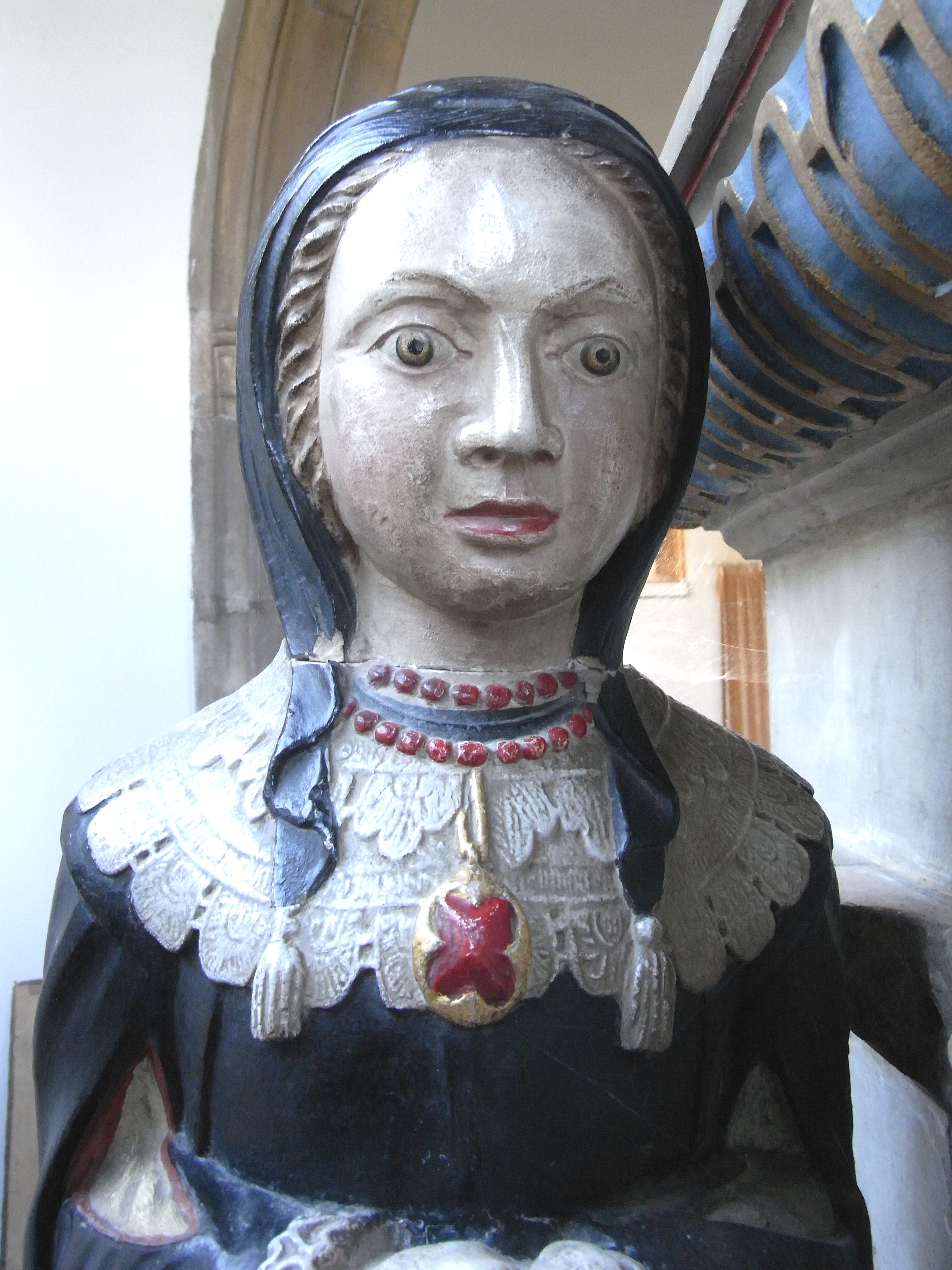 Anne Dudley, wife of Sir Francis Popham (c.1573-1644), detail of her kneeling effigy in Wellington Church, Somerset, at east end of 1607 monument to her father-in-law Sir John Popham (1531-1607), Lord Chief Justice of England.